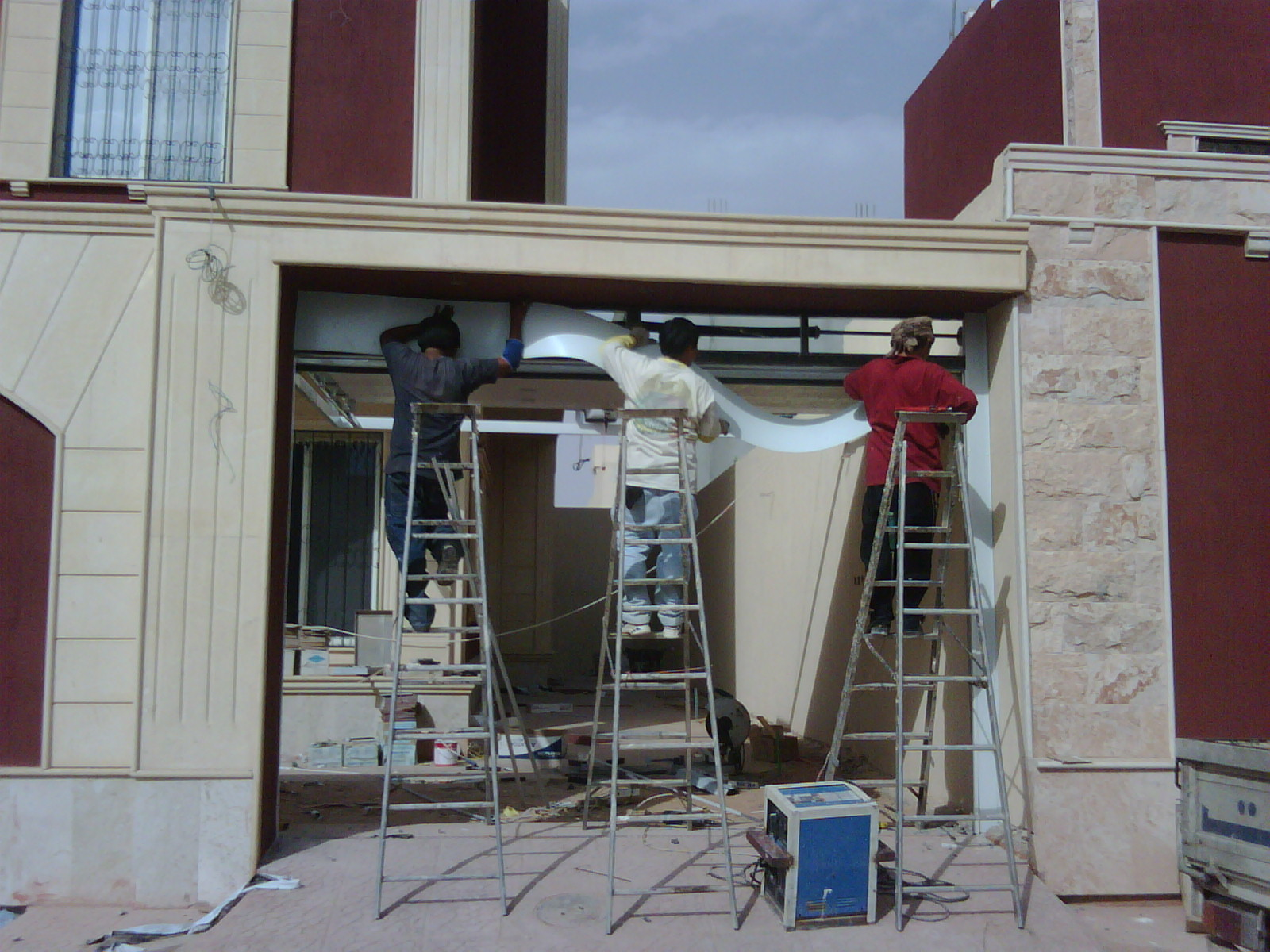 Insulation of Sectional Garage Door in new Villa, Riyadh,Saudi Arabia